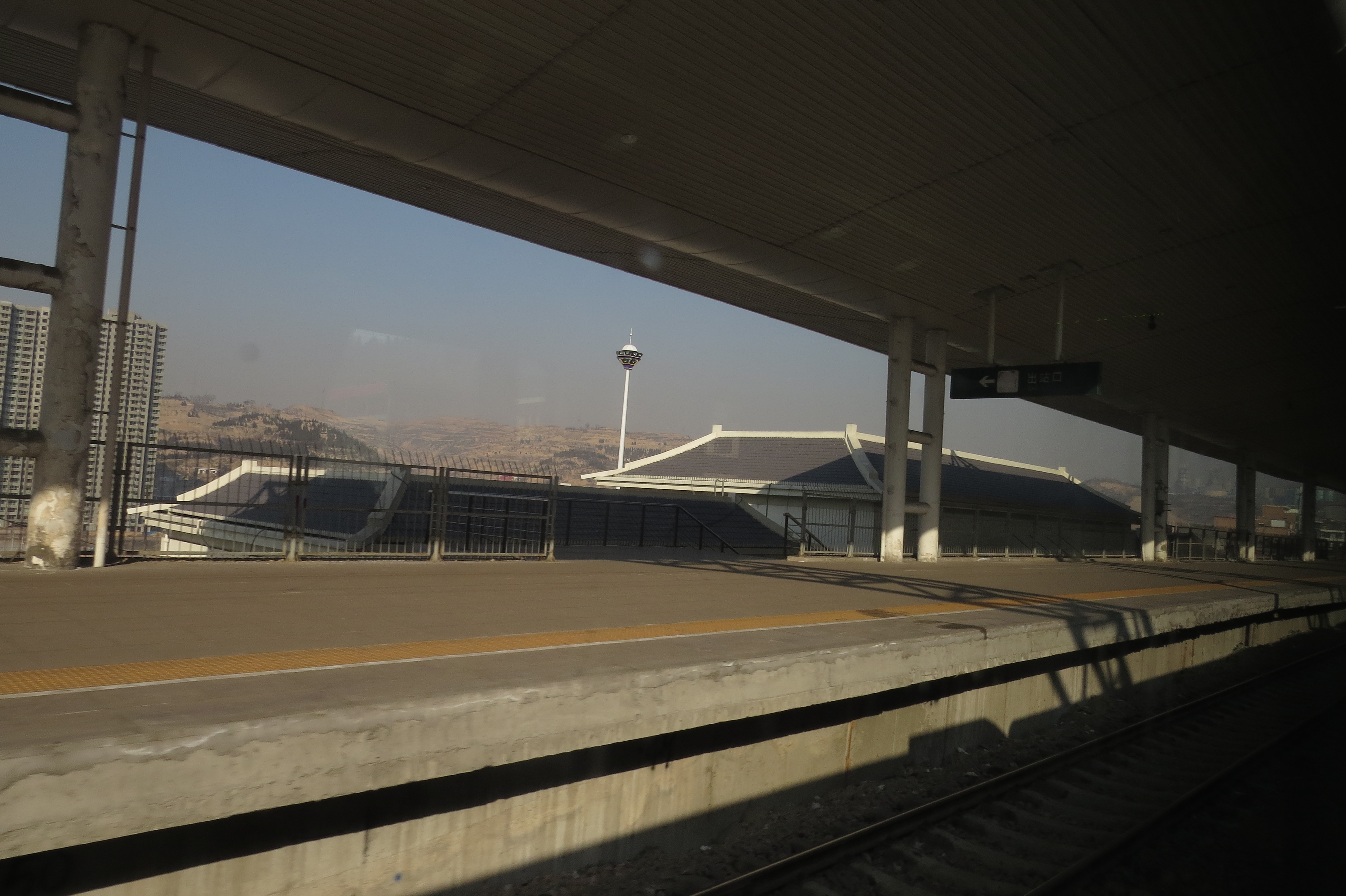 Z70 passing this station in Shanxi.